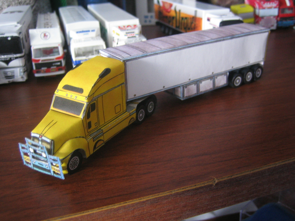 paper craft of us truck